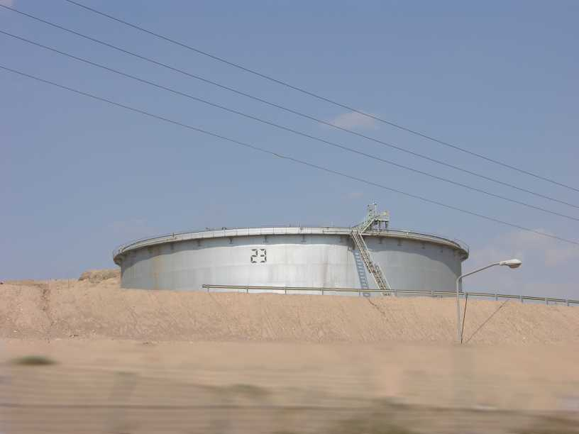 One of the many oil reservoirs in Eilat